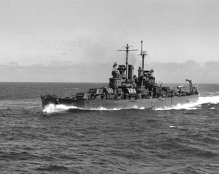 The U.S. Navy light cruiser USS Mobile (CL-63) underway in the Pacific Ocean, in October 1943, probably at the time of the raid on Marcus Island.